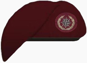 Recce (Special Forces) Beret of South Africa